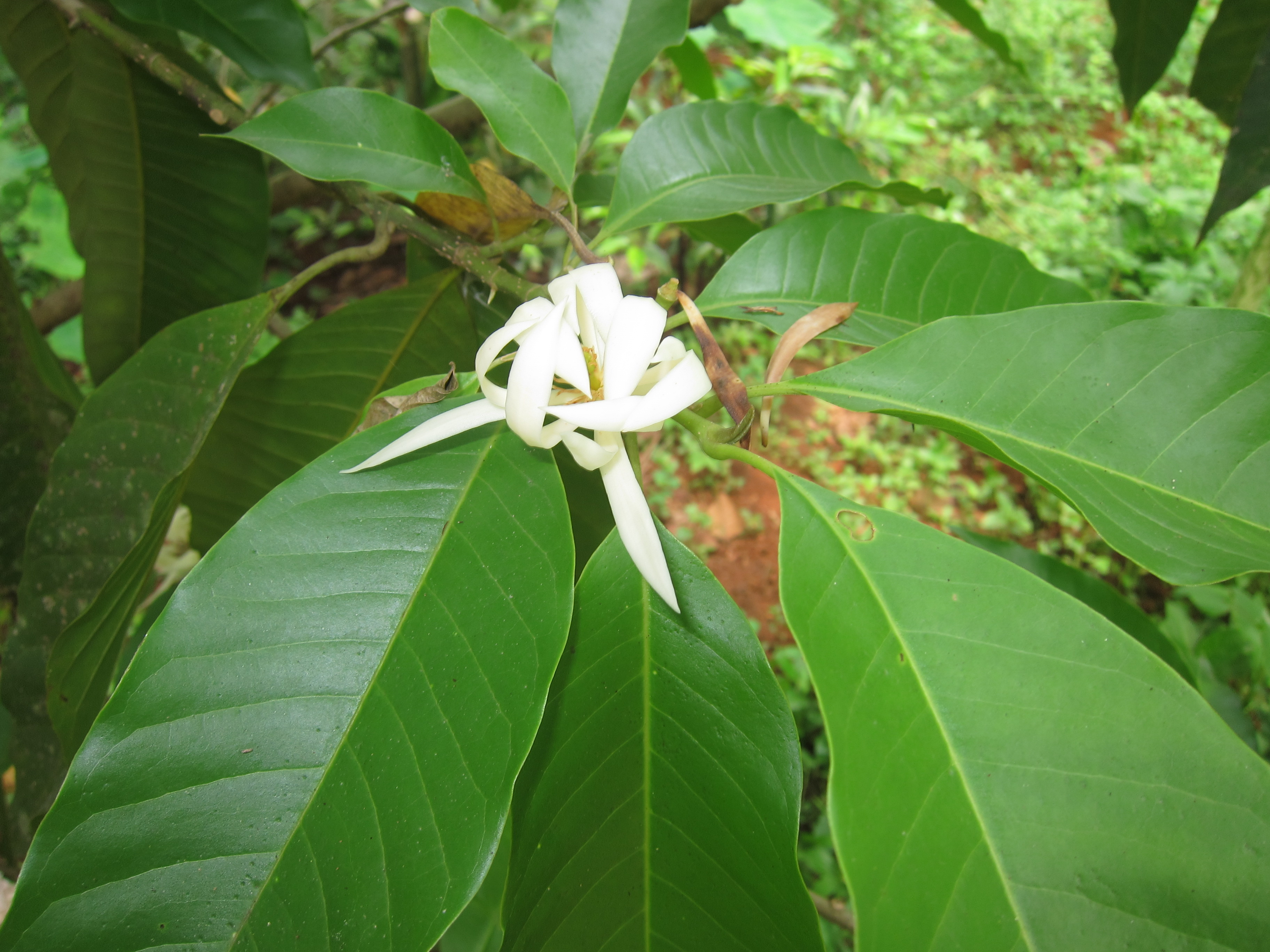 Champak (Champa) Michelia champaca